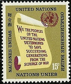 United Nations postage stamp